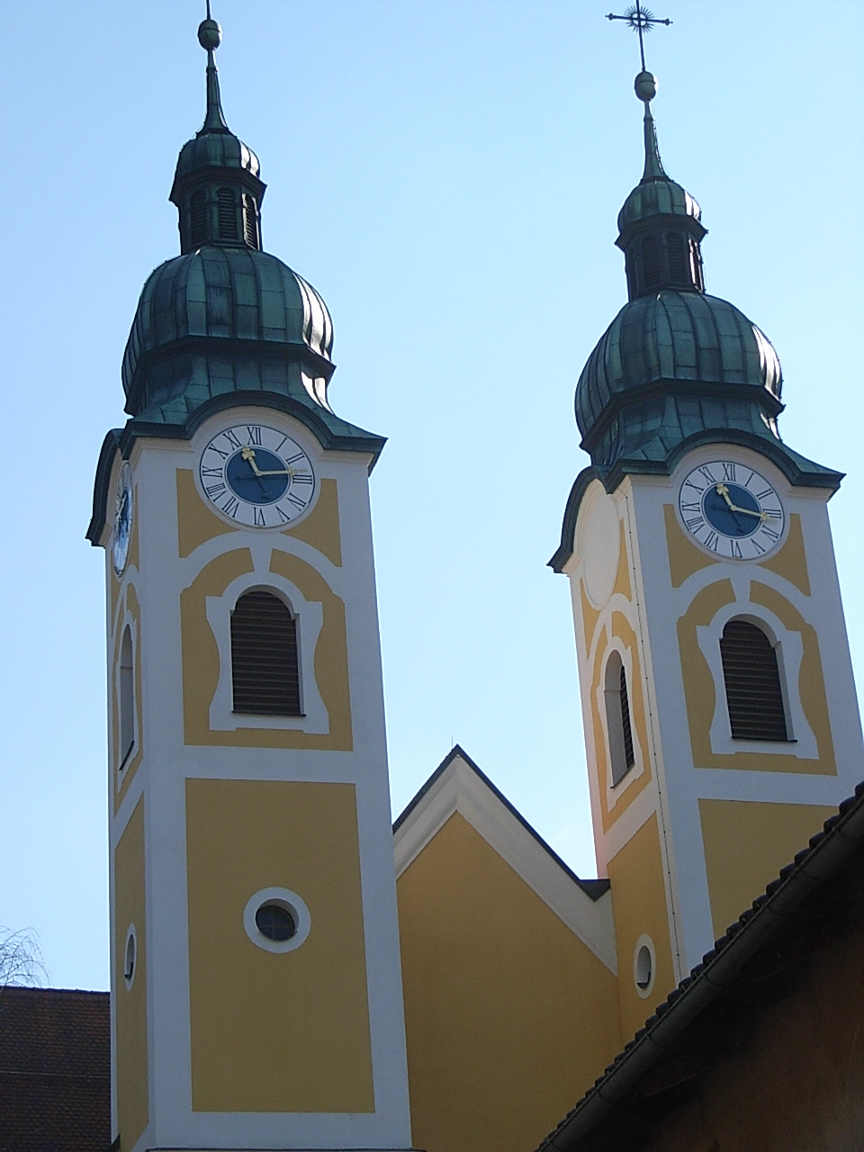 Obernzell, Parish Church of the Assumption from west.